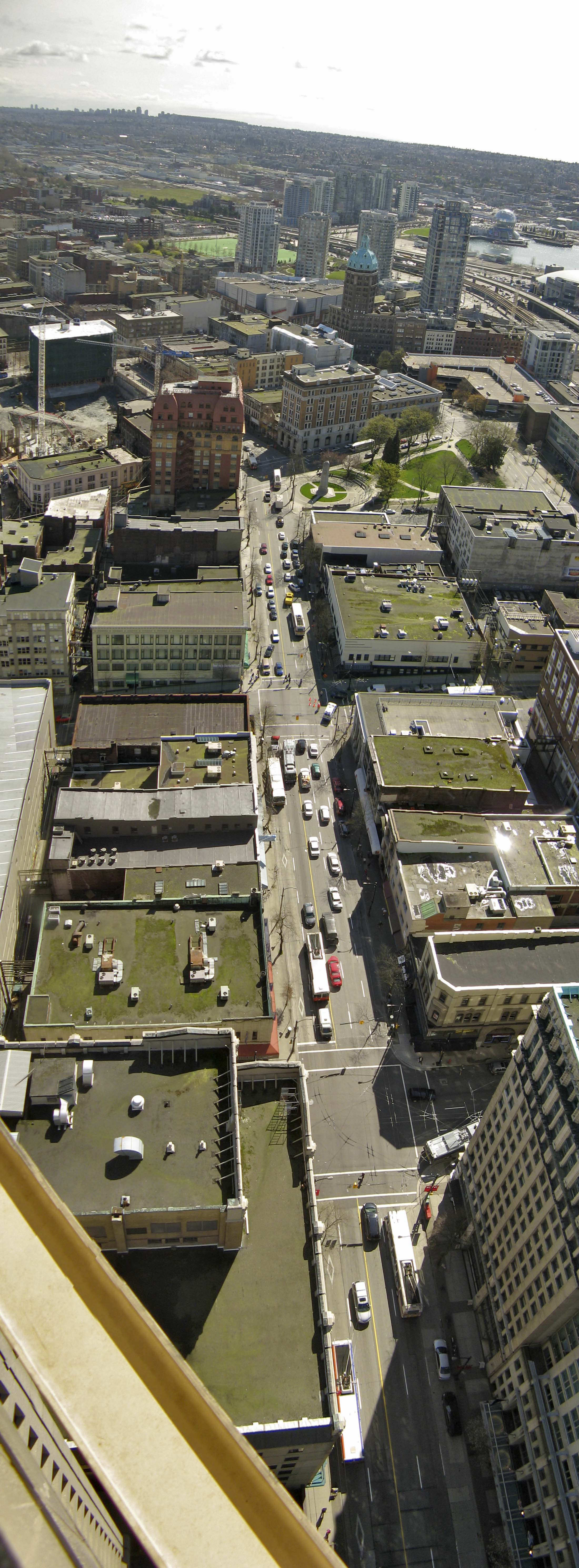 West Hastings Street in Vancouver, from Harbour Centre Lookout